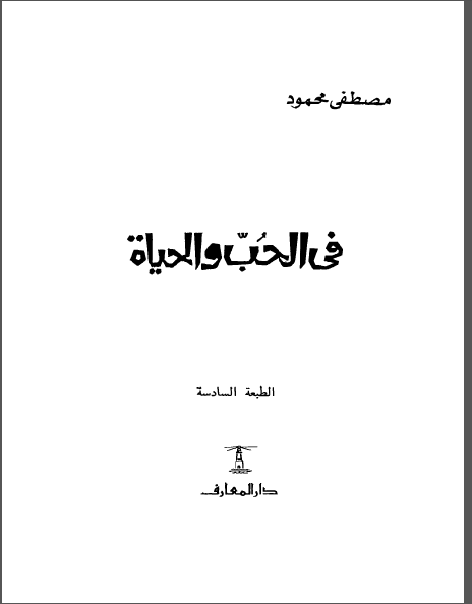 Book by Dr. Mustafa Mahmoud entitled: about love and life